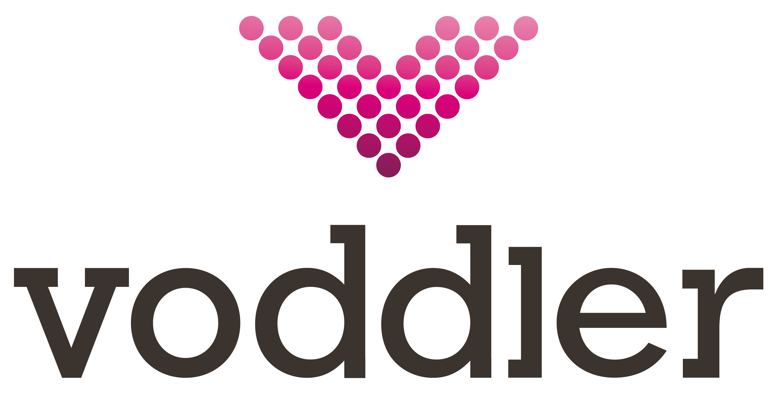 Voddler Group's corporate logo. Also used as logo for Voddler Group's VOD service Voddler